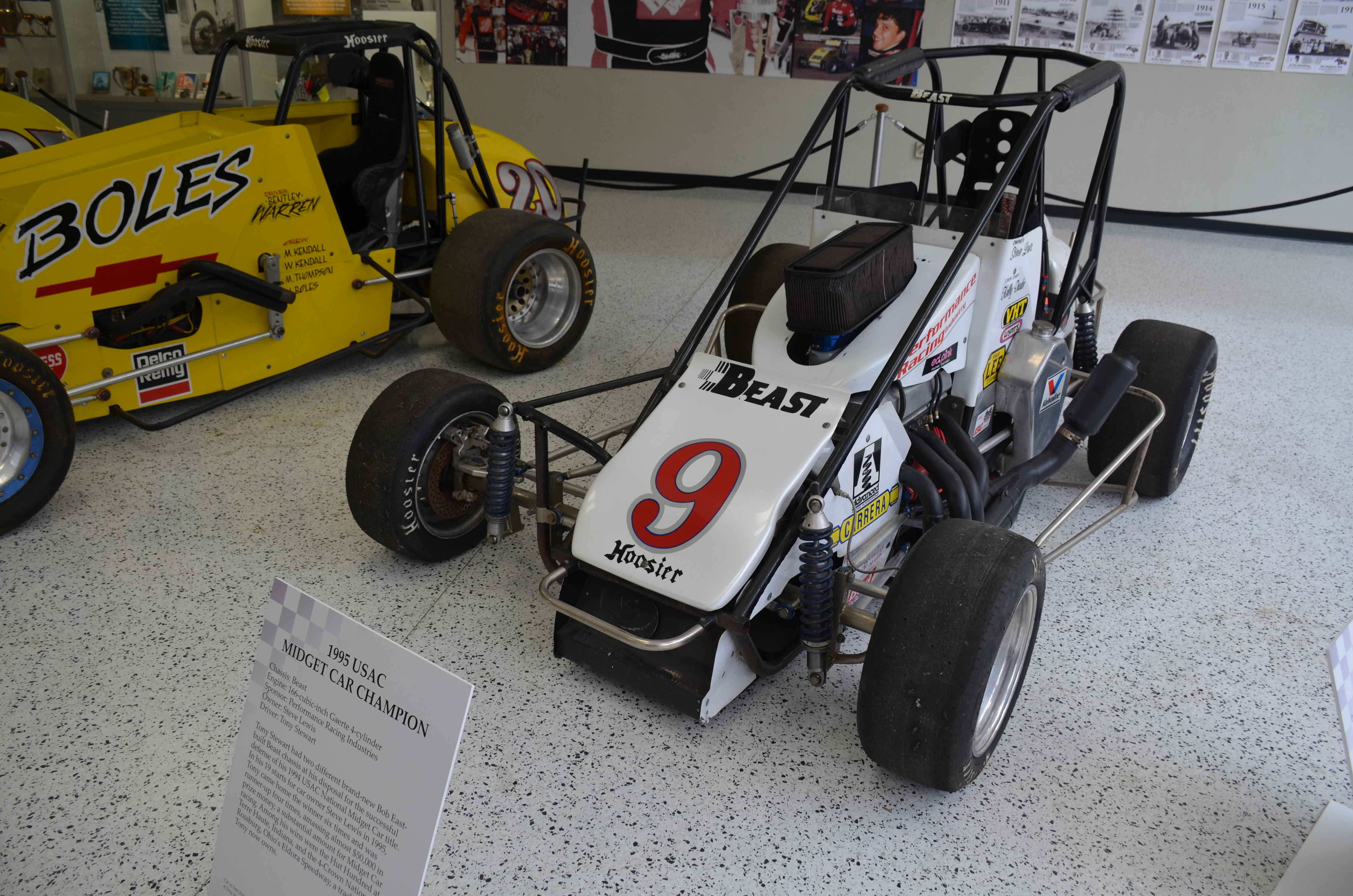 Tony Stewart's 1995 Midget Car Championship car ("Triple Crown"). On display at the Indianapolis Motor Speedway Museum in 2016.